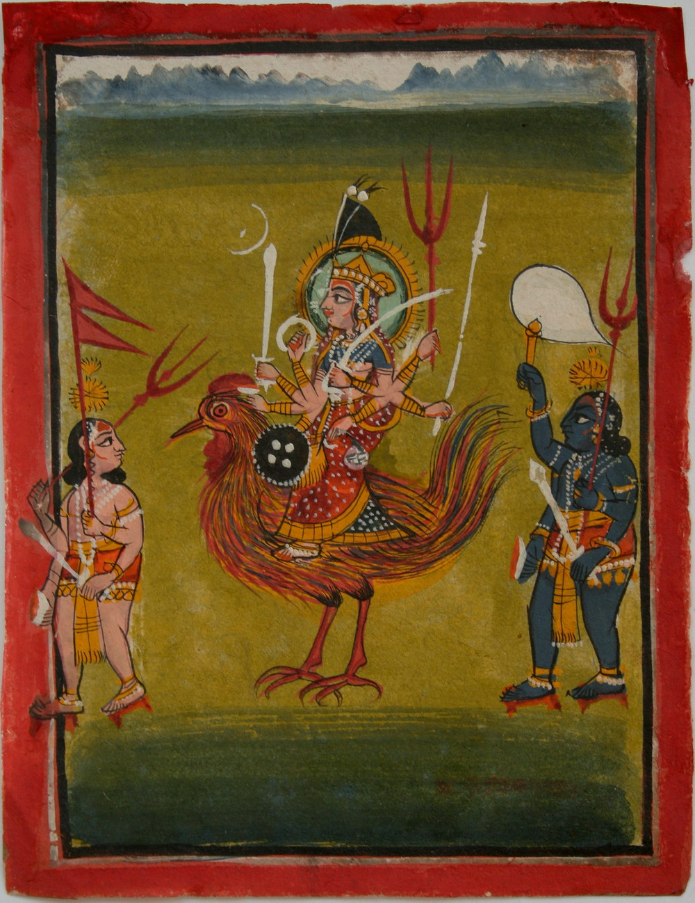 "Bahuchara on her cockerel vahana (mount), attended by Gorabhairava (the fair Bhairava) and Kalabhairava (the dark Bhairava). Mewar, circa 1820-40. Gouache on warqa. 13.1 x 10cm "